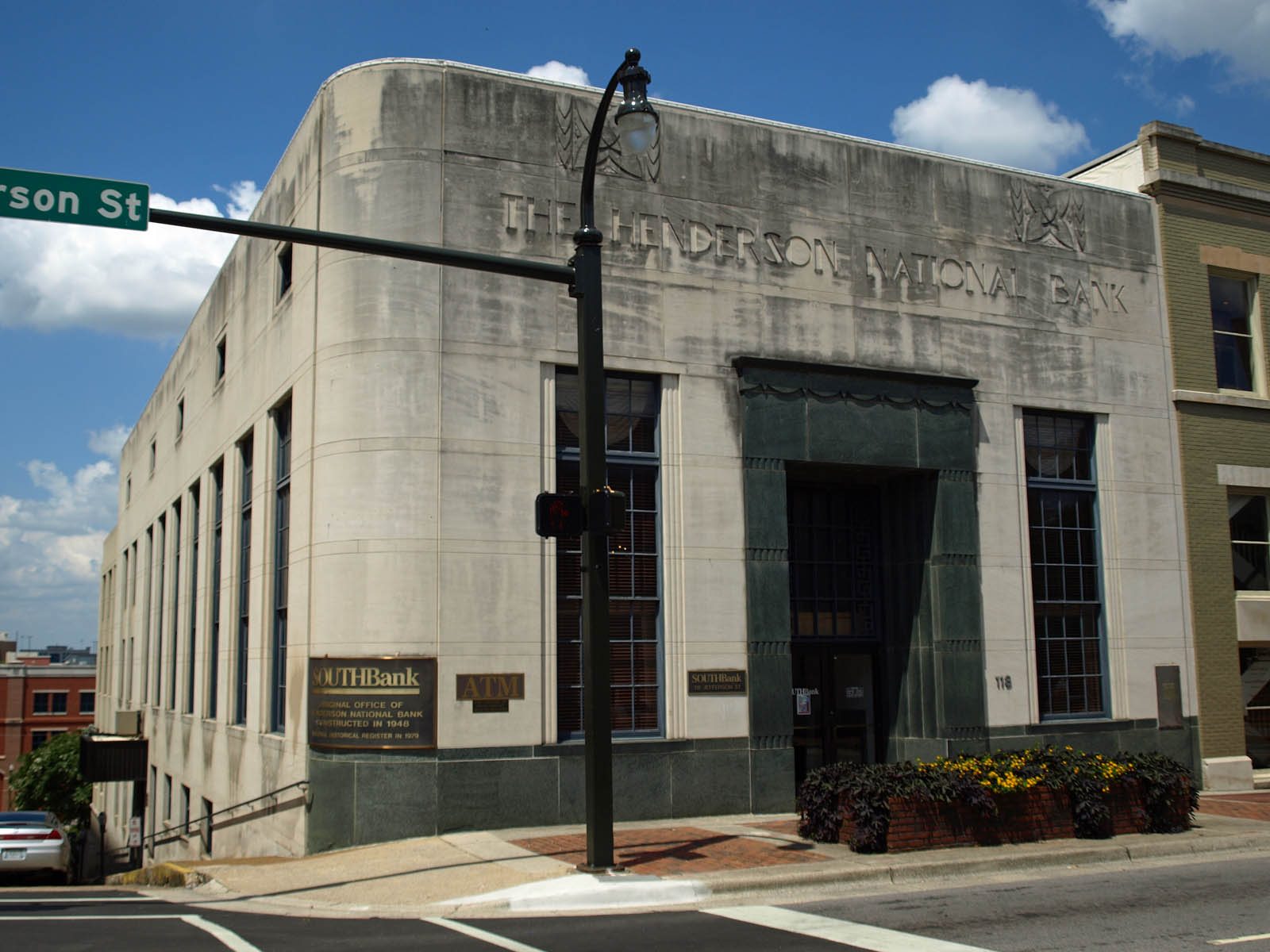 The Henderson National Bank Building in Huntsville, Alabama, listed on the National Register of Historic Places.